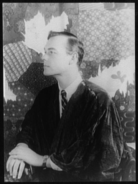 Title: Portrait of Coleman Dowell Abstract: 1 photographic print : gelatin silver.